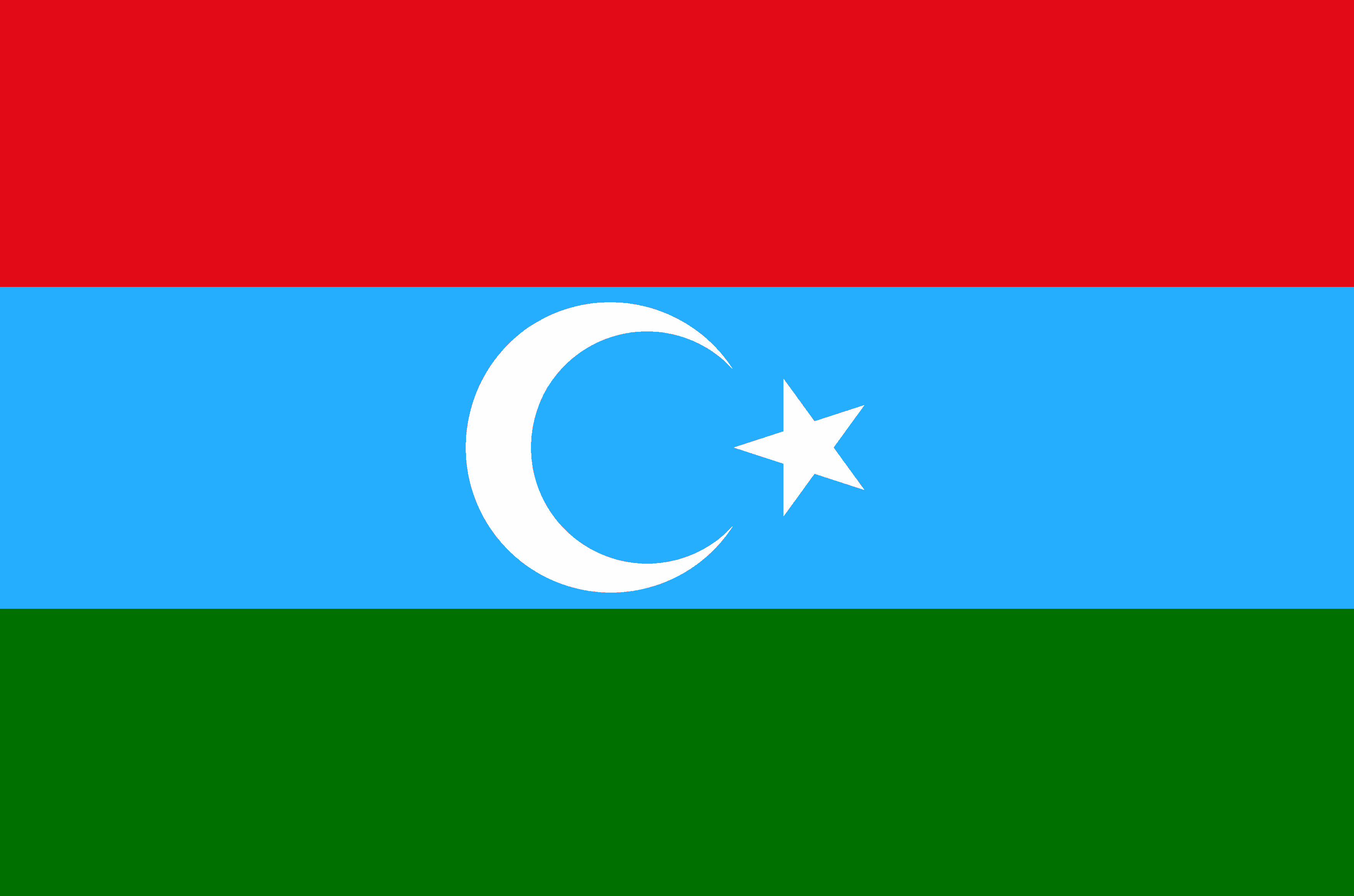 Flag of South Turkestan-Afghanistan Turks